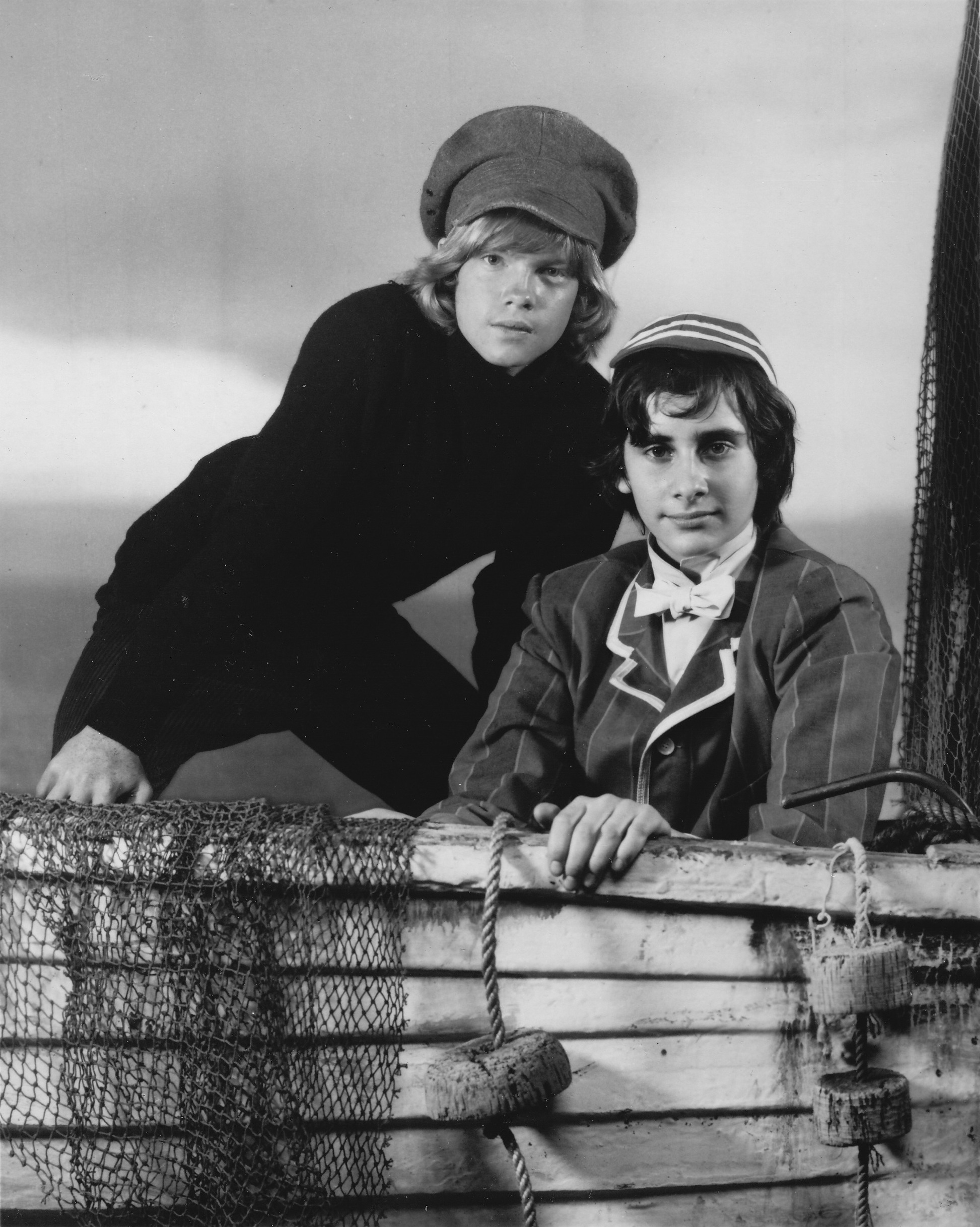 Publicity photo of teen actors Johnny Doran (left) and Jonathan Kahn (right) promoting the Sunday, December 4, 1977 premiere of the ABC television film Captains Courageous.